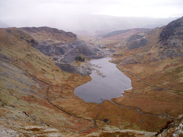 Llyn Cwmorthin A bird's-eye view of the old slate quarry from Allt y Ceffylau. It looks as if spoil was dumped in the lake, forming the curious causeway-like structures.